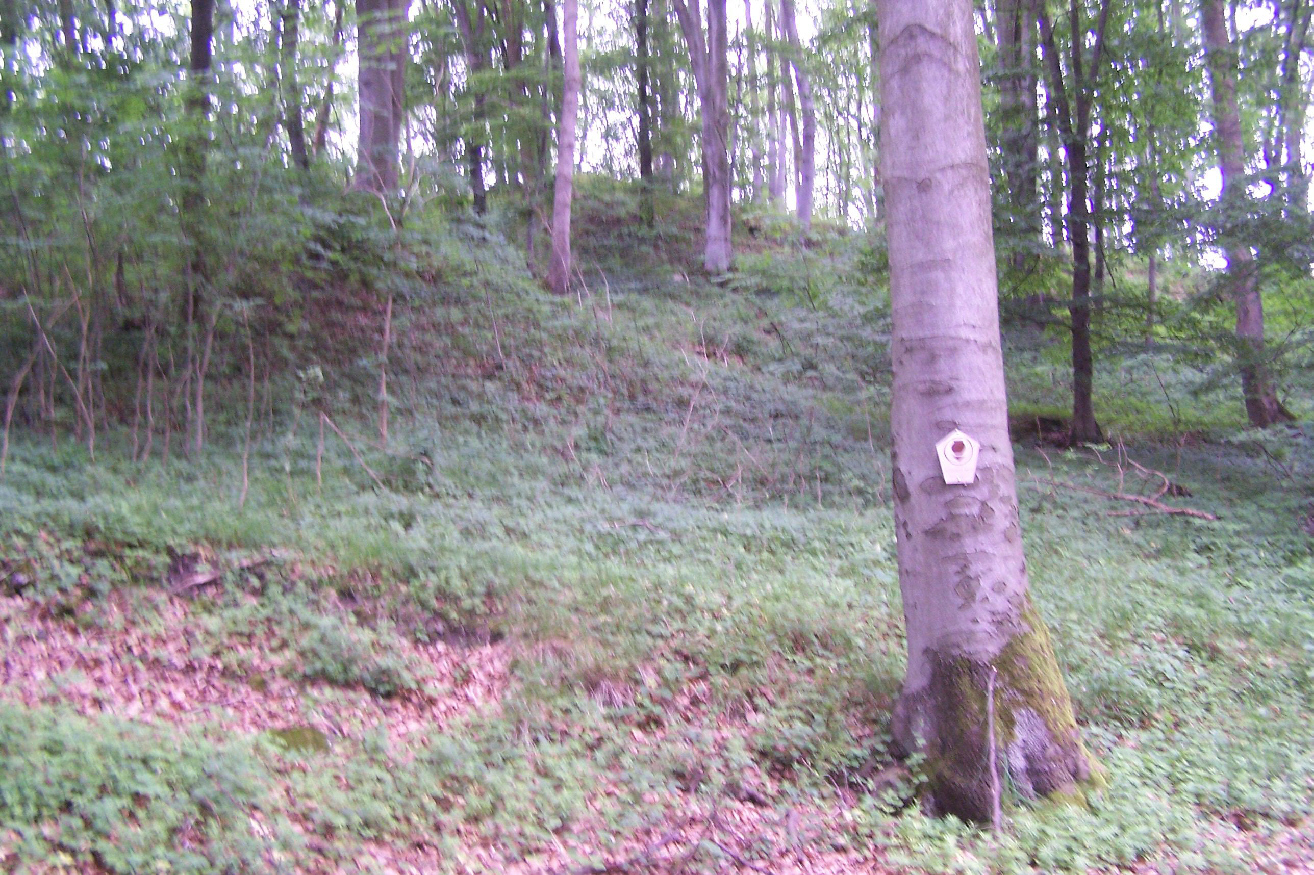 Structures in the area of Fischberg castle.